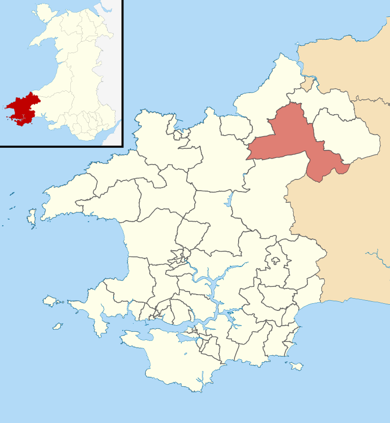 Location map of Crymych electoral ward in Pembrokeshire, Wales, which covers the communities of Crymych and Eglwyswrw.